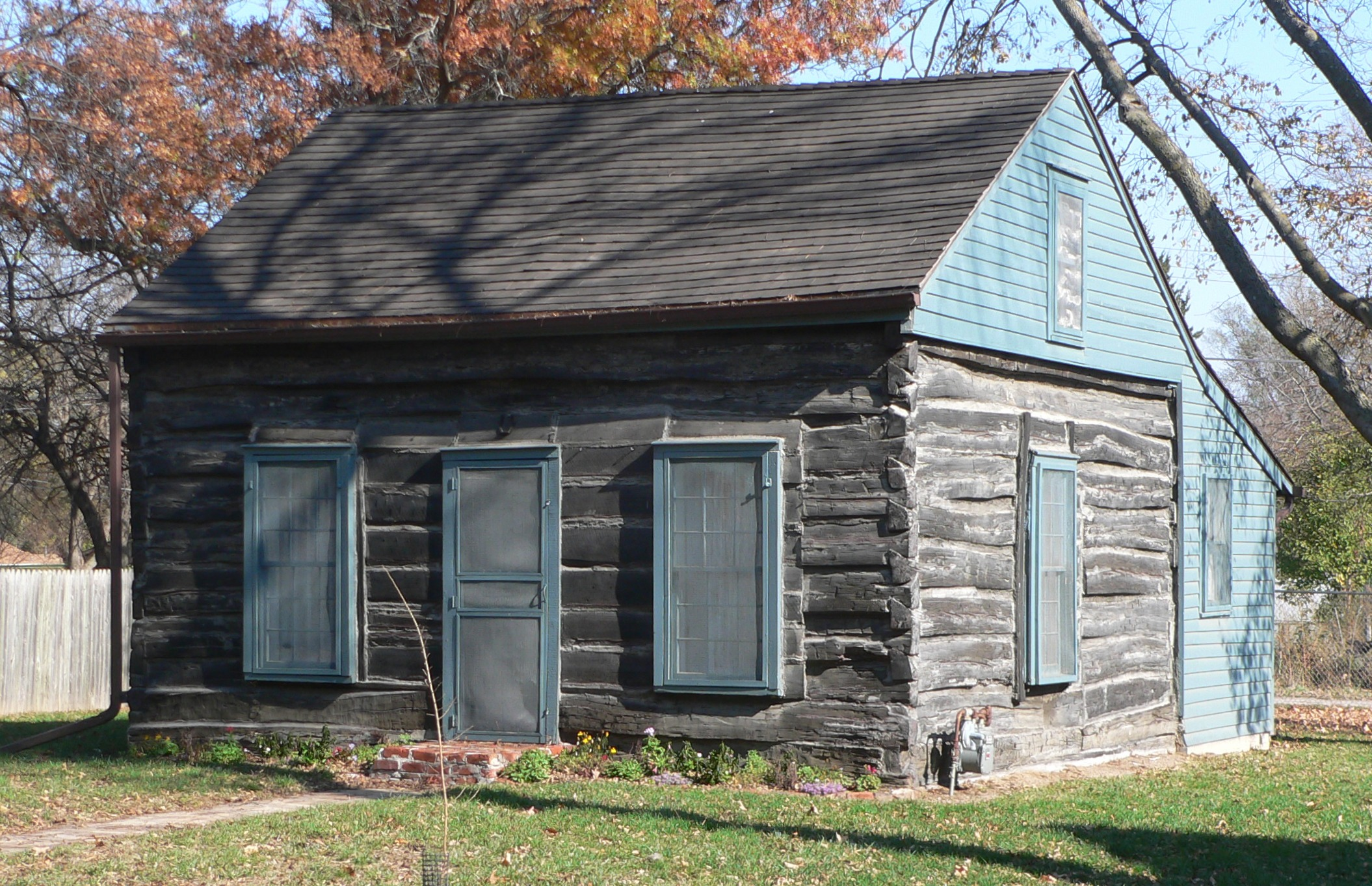 Log cabin, located at 1805 Hancock Street in Bellevue, Nebraska; seen from the southwest.